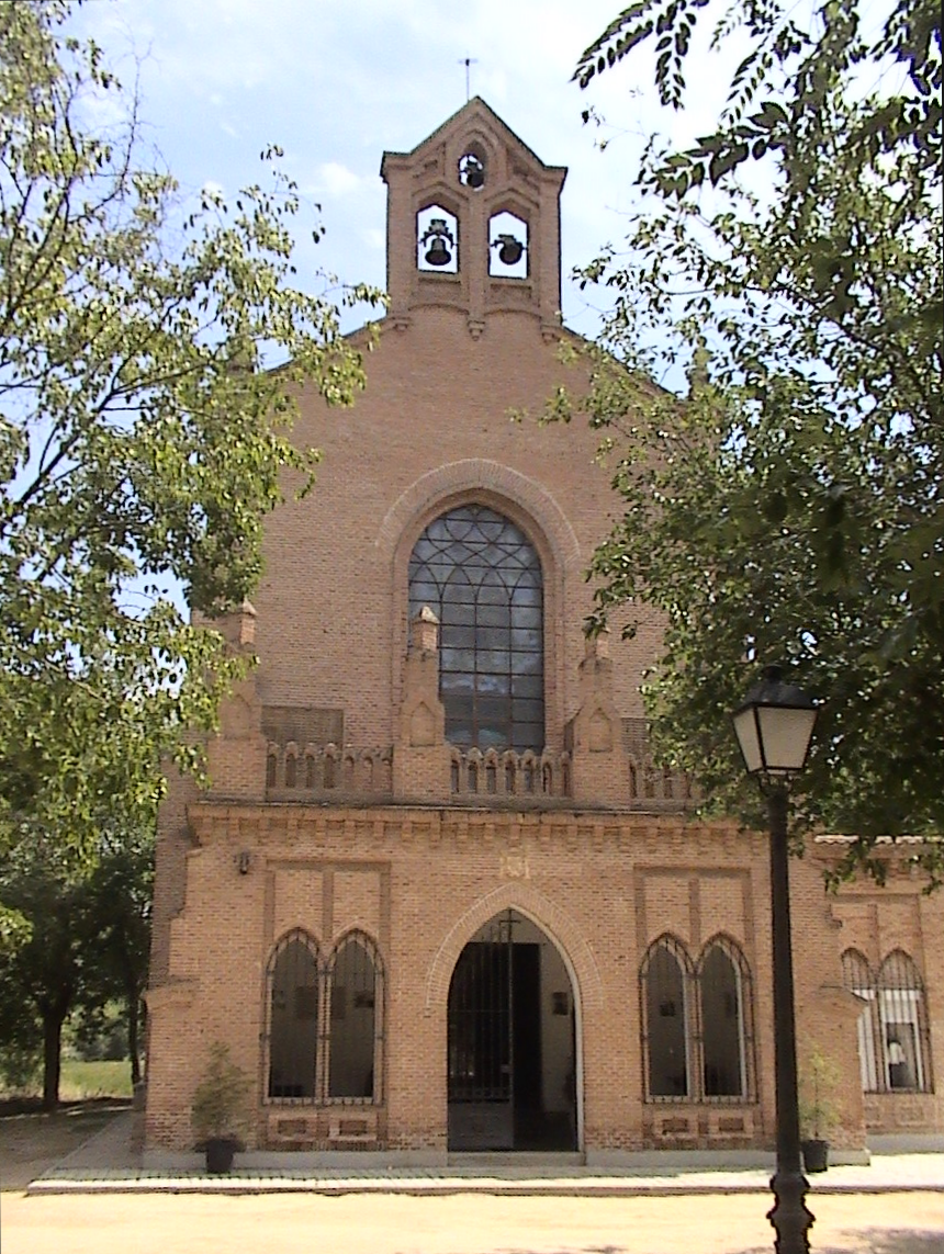 Chapel dedicated to the Virgen del Val, patron saint of Alcalá de Henares (Community of Madrid - Spain). Rebuilt in 1926 in style neo-mudéjar.